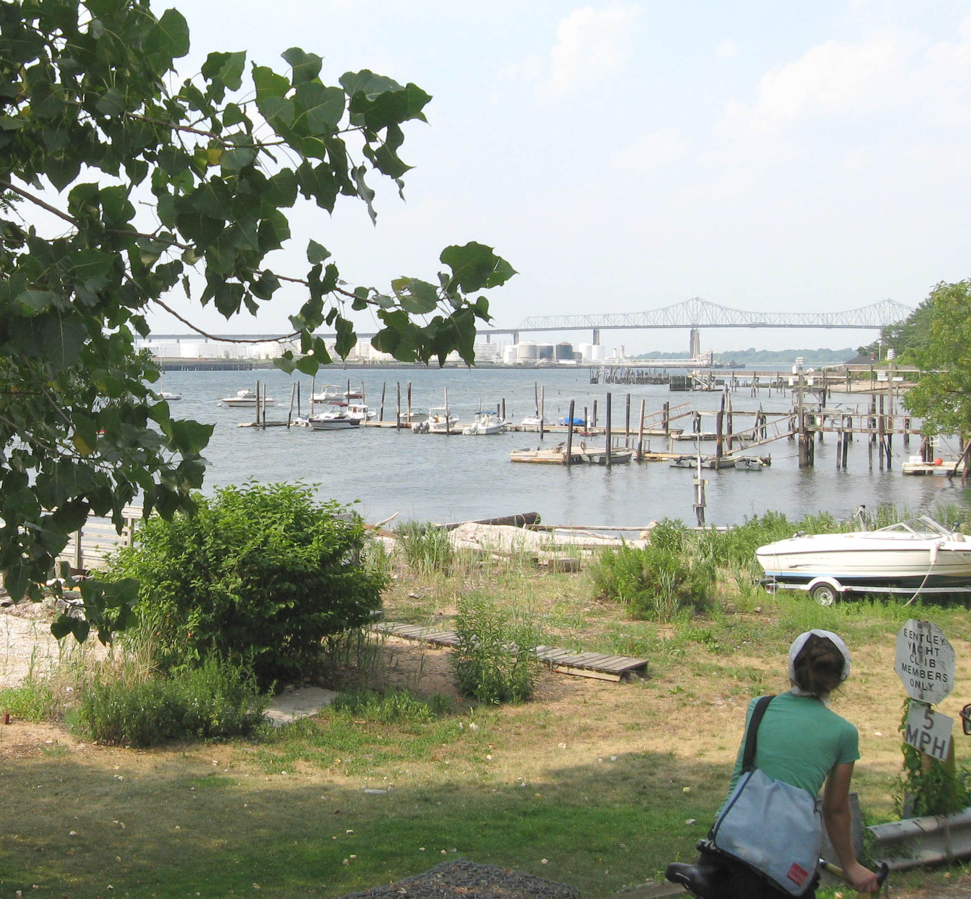 Looking north in Tottenville, Staten Island at Arthur Kill marina with Outerbridge Crossing in background on a sunny early afternoon